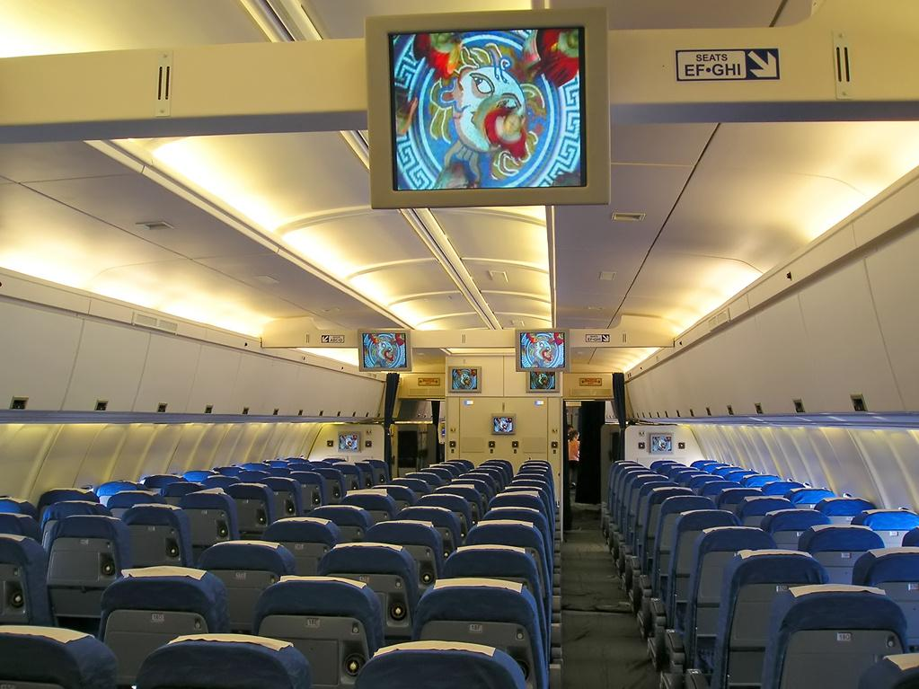 Cubana's IL-96 economy class cabin.